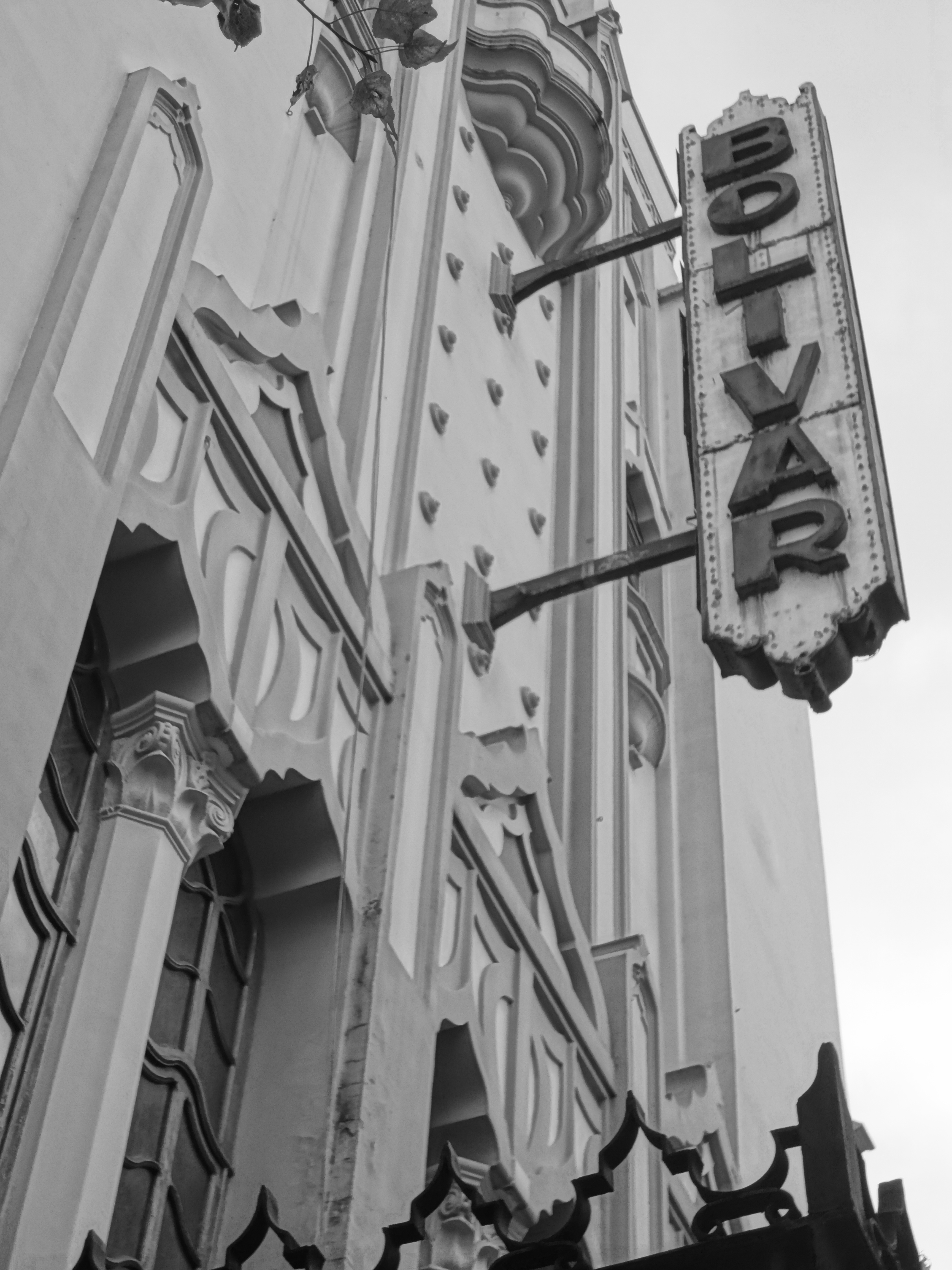 Teatro Bolívar Historic Center of Quito UNESCO World Cultural Heritage Site Centro Histórico de Quito Photography by David Adam Kess